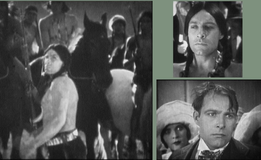 Joe O'Brien is shown in these three shots. Joe was a Hollywood actor for 9 years, this being one of his early films.